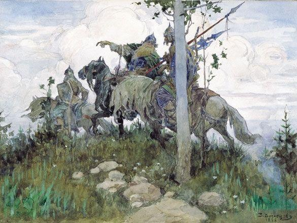 Mounted knights